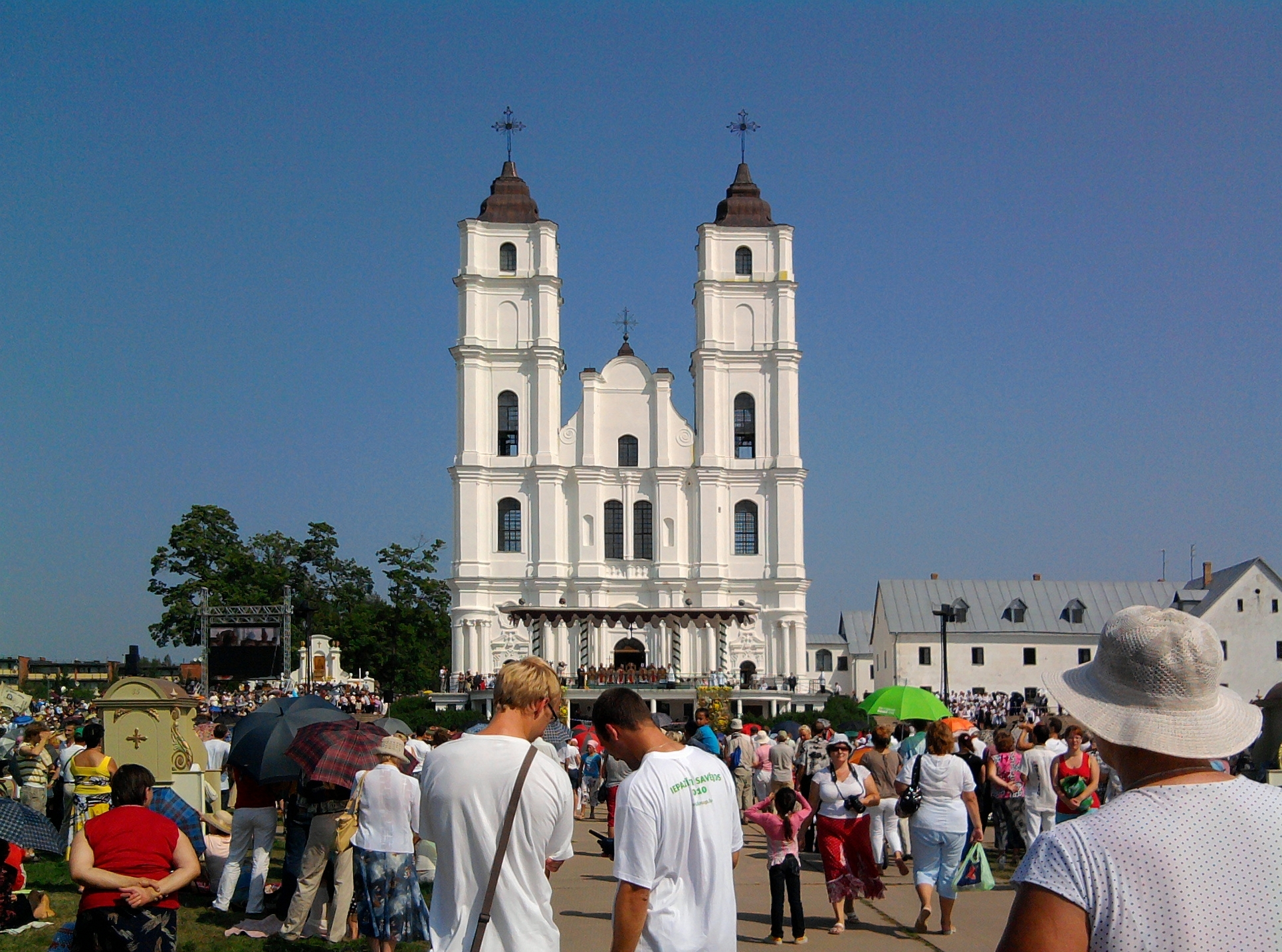 Aglona (August, 15th)